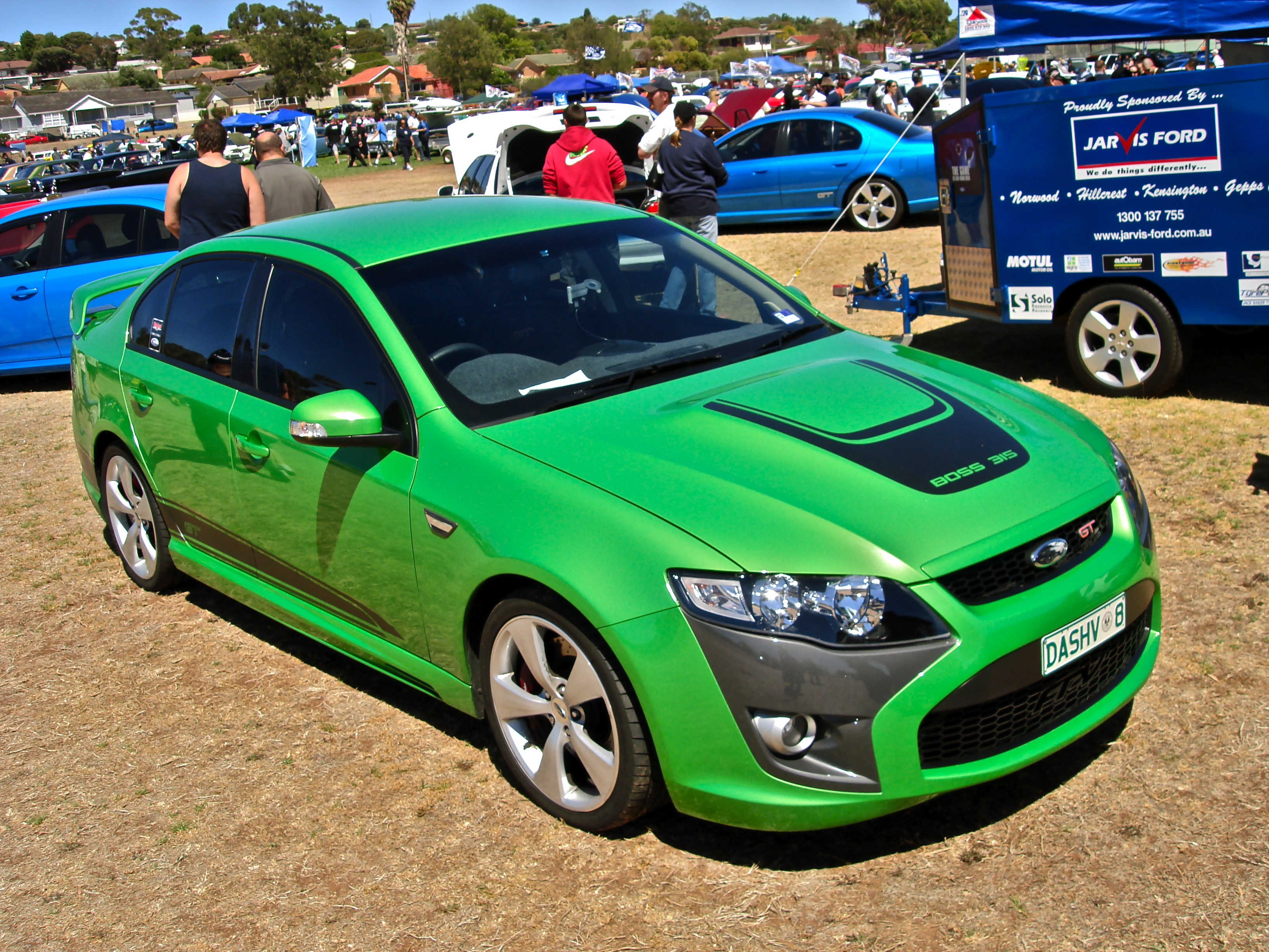 FPV FG GT Boss 315 at the South Australian All Ford Day